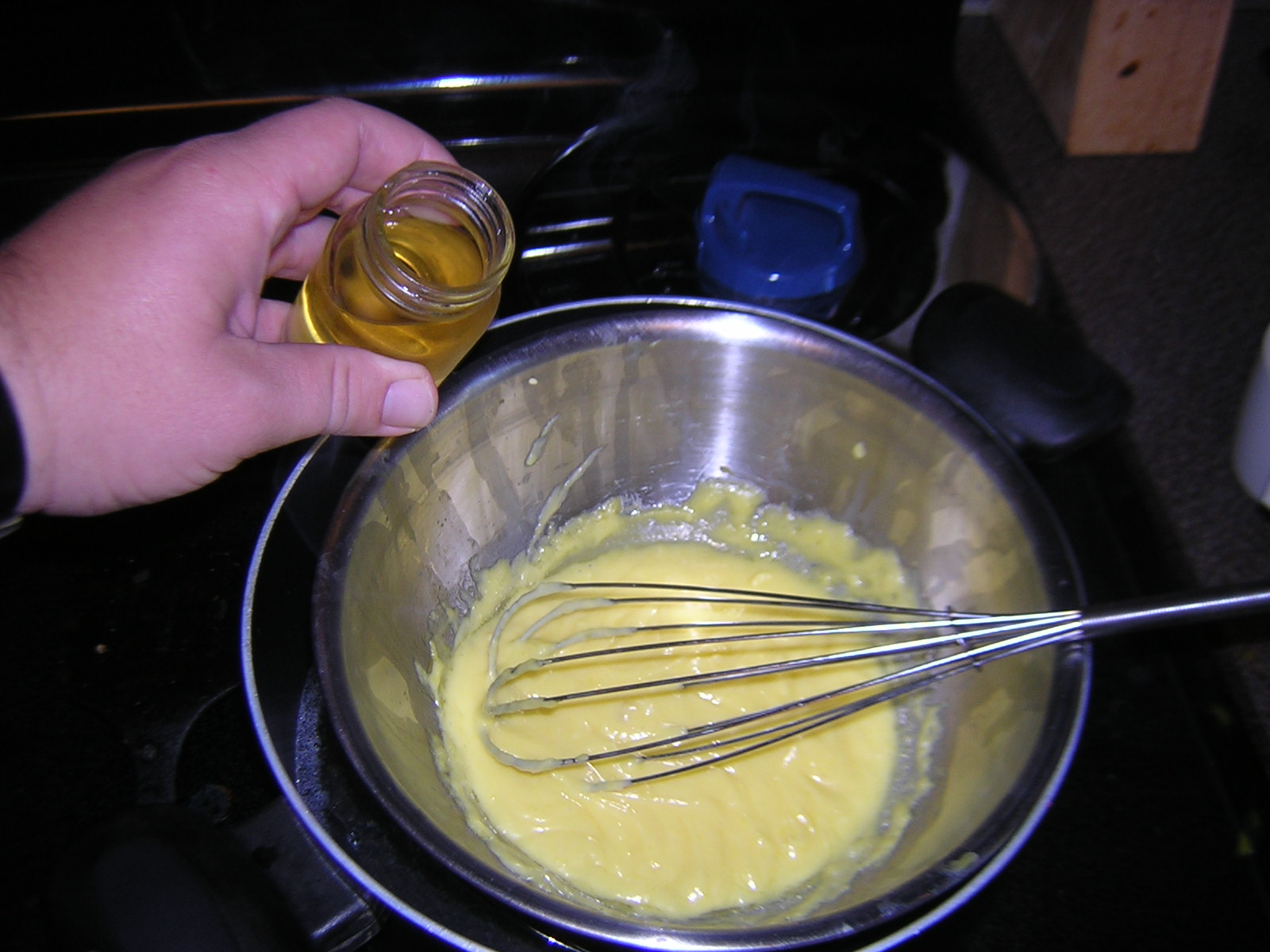 Hollandaise sauce from scratch with a little Scotch added. Served over grilled salmon prepared with a British-style rub.